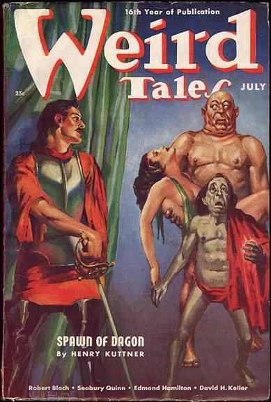 Cover of the pulp magazine Weird Tales (July 1938, vol. 32, no. 1) featuring Spawn of Dagon (an Elak short story) by Henry Kuttner. Cover art by Virgil Finlay.